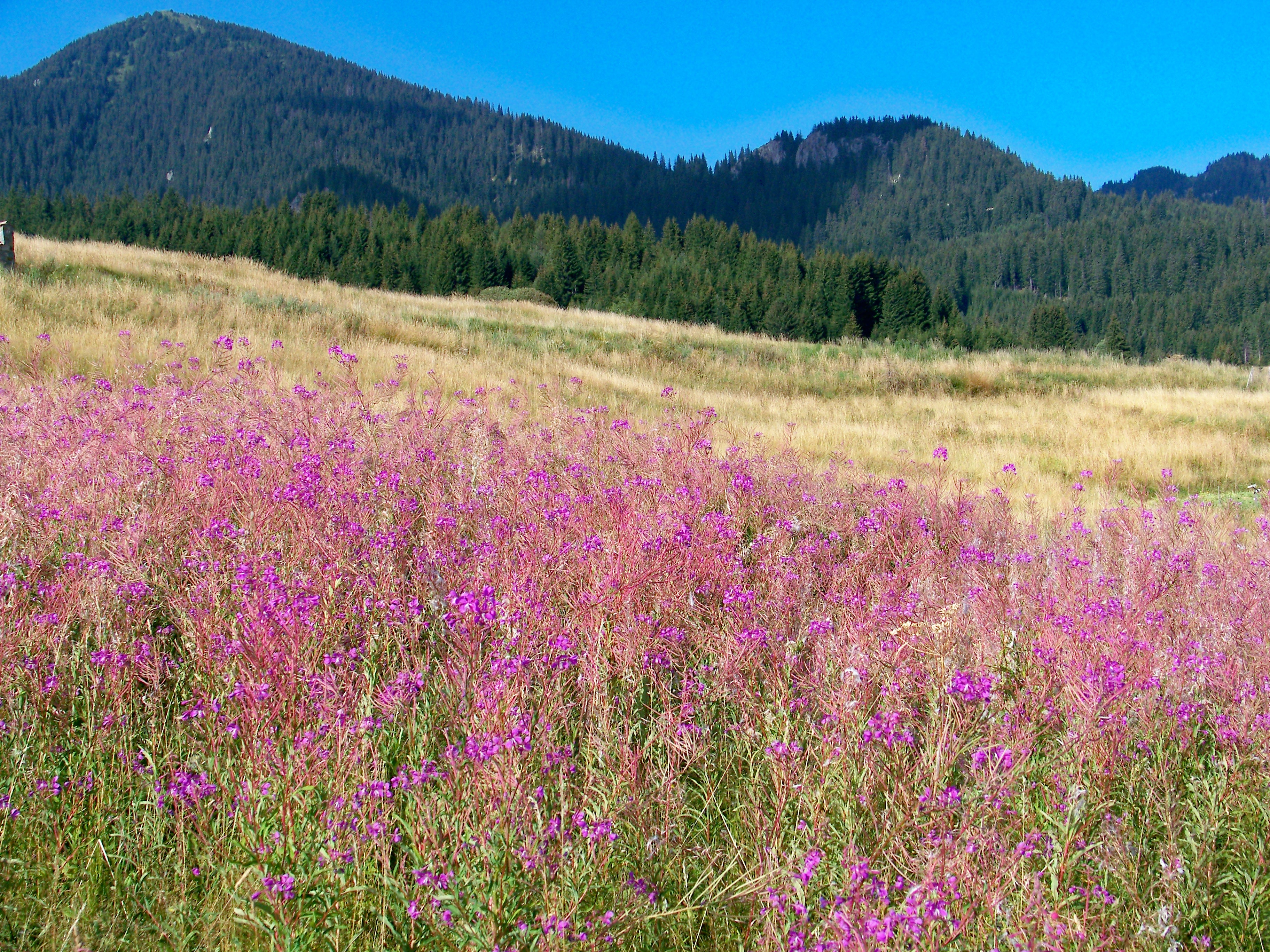 Bulgaria, Rhodope, near village of Gela